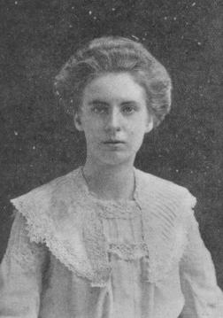 A photograph of Marie Pauline Hall.